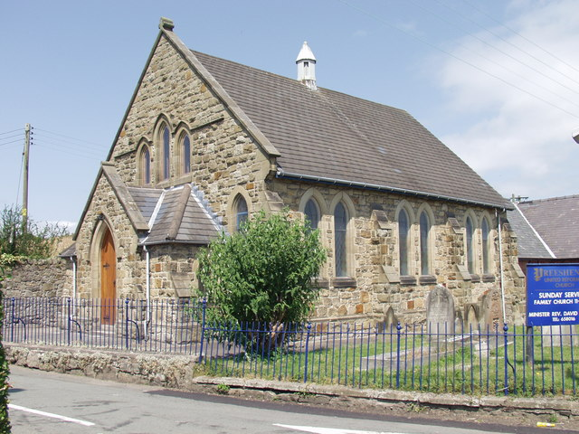 Preeshenlle United Reform Church. A well maintained stone built church on the edge of Rhewl.